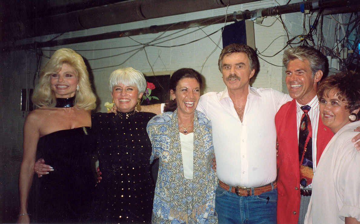 Lonnie Anderson and Burt Reynolds with some of Lonnie's former high school classmates in Minneapolis, when Lonnie went to a high school reuinion - 1992